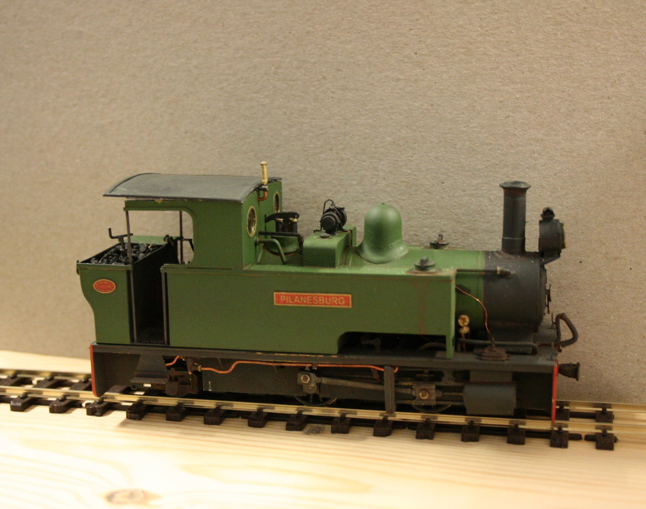 This lovely looking loco set off my Want alarm. The condition shown is based on industrial use in South Africa, but it can also be built as the Welsh Highland Railway's Gelert. Outside frames mean it should be possible to build to 14mm gauge. The kit has been developed by Bruce Green of Inscale Models.